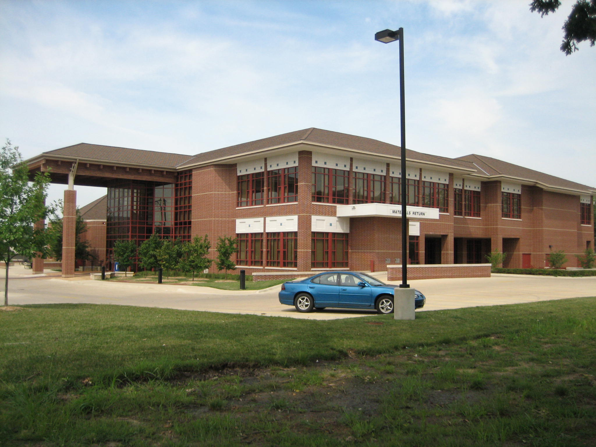 Downtown Freeport, Illinois, USA. Freeport Public Library.